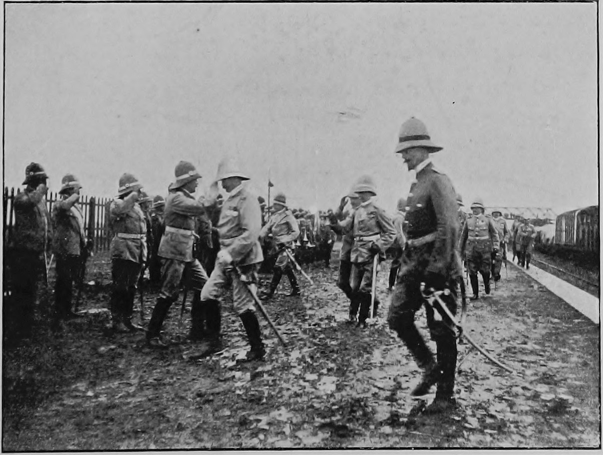 Identifier: cu31924023140977 Title: The land of the boxers, or, China under the allies Year: 1903 (1900s) Authors: Casserly, Gordon Subjects: Publisher: London New York Bombay : Longmans, Green, & Co. Text Appearing Before Image: FRENCH COLONIAL INFANTRY MARCHING THROUGH THEFRENCH CONCESSION, TIENTSIN Text Appearing After Image: GERMAN OFFICERS WELCOMING FIELD-MARSHAL COUNT VON WALDERSEE AT THE RAILWAY STATION, TIENTSIN [38] THE ALLIED ARMIES IN CHINA 39 the first time the leading military nation was brought face to face with the difficulties involved in the despatch of an expedition across the sea and far from the home base. And its mistakes were not few. Their contingent found themselves at first devoid of transport and dependent on the kindness of the other armies for means to move from the railway. One projected expedition had to be long delayed because the German troops could not advance for this reason, until the English at length furnished them with the necessary transport. The enormous waggons they brought with them were useless in a country where barrows are generally the only form of wheeled transport possible on the very narrow roads. Their knowledge of horse-mastership was not impressive, their animals always looking badly kept and ill-fed. The first German troops despatched to China were curiously clothed